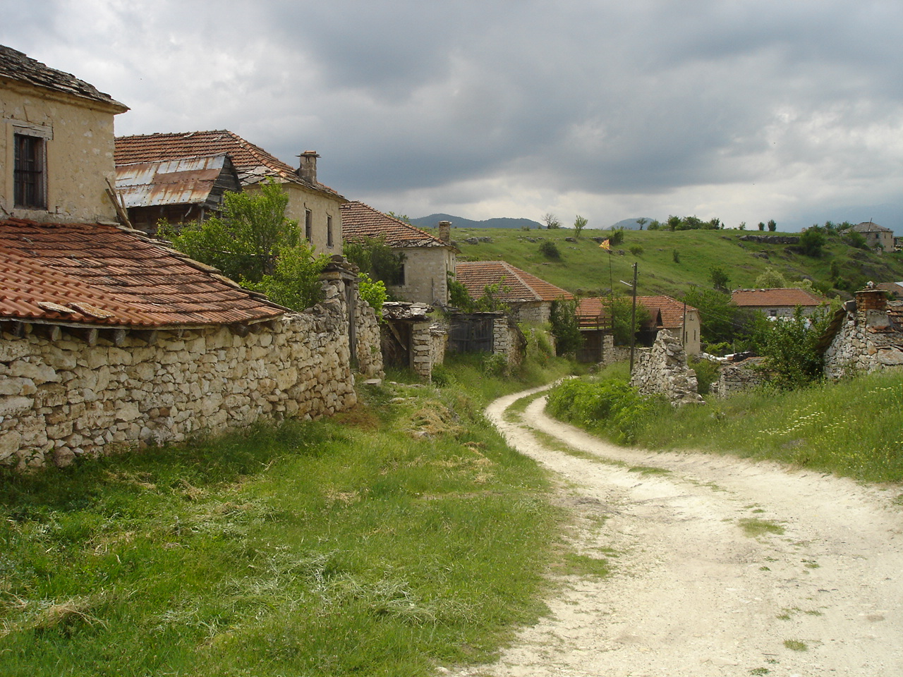 Houses on the entrance of Beshishte village in Mariovo region, Macedonia